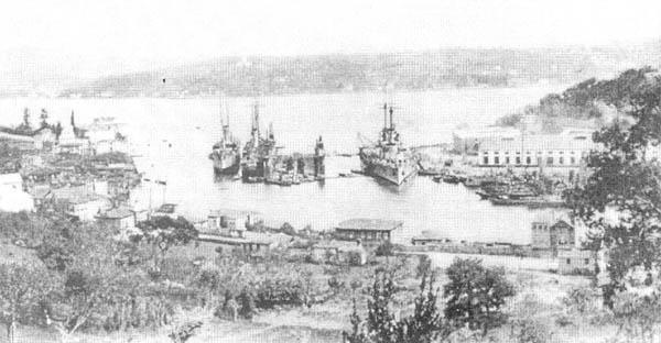 SMS Goeben and SMS Breslau in the Bospporus 1915 espionage picture from russina sources